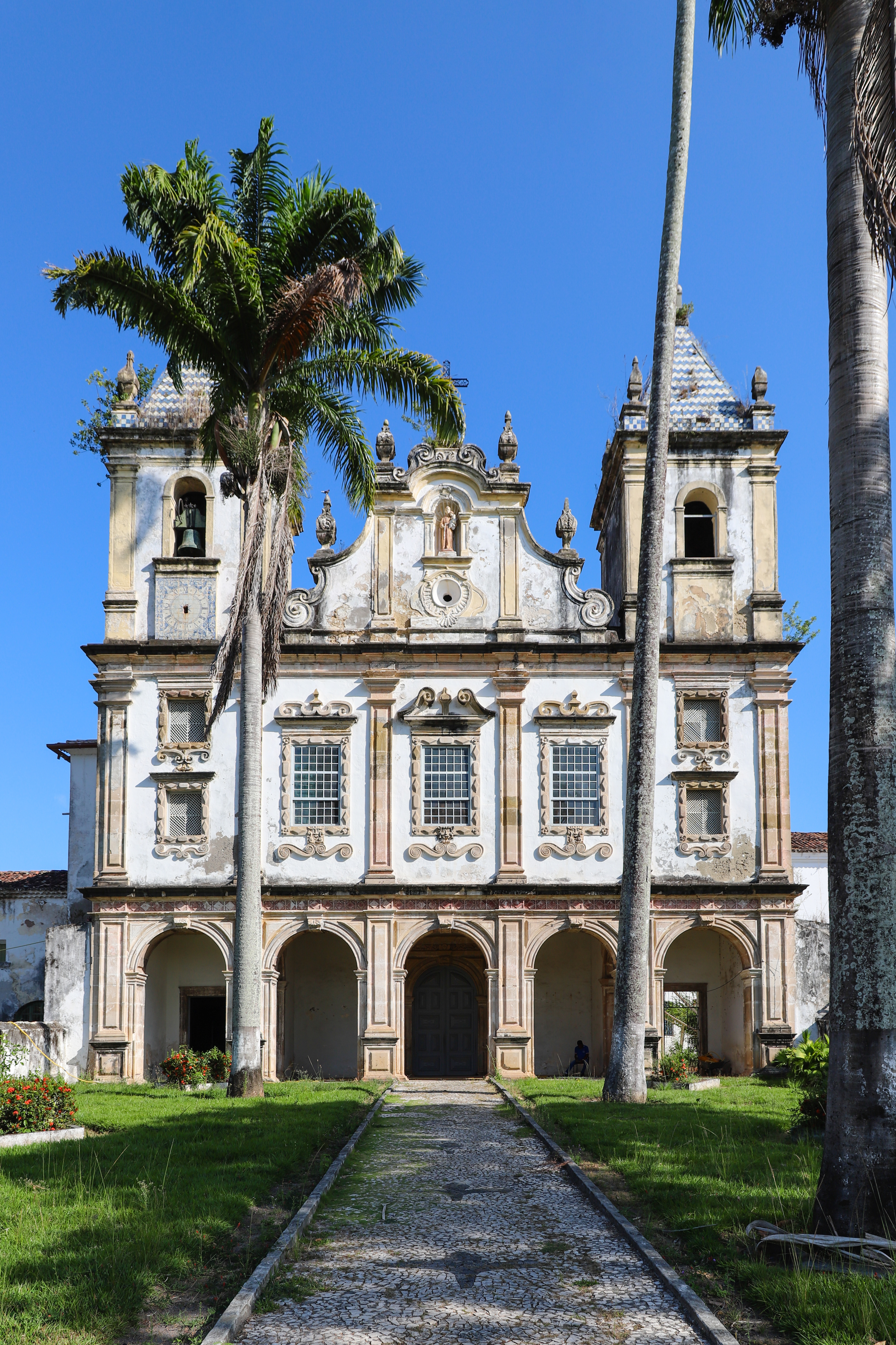 Convento e Igreja de Santo Antônio e Capela da Ordem Terceira (Church and Convent of Saint Antony and Chapel of the Third Order), São Francisco do Conde, Bahia, Brazil.